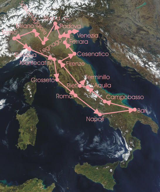 Map of Italy highlighting the stages of 1936 Giro d'Italia